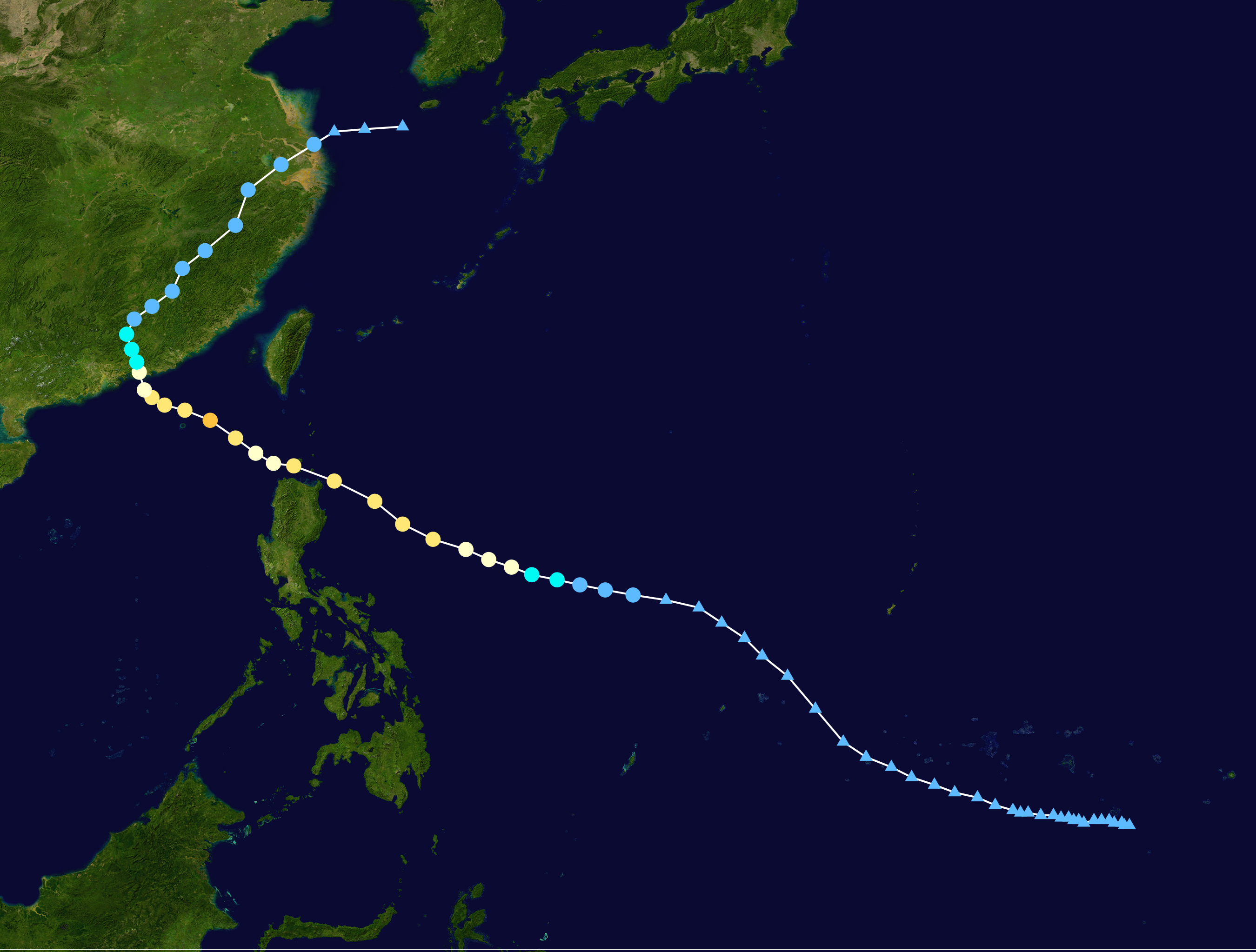 Typhoon Hal 1985 track. Uses the color scheme from the Saffir-Simpson Hurricane Scale.